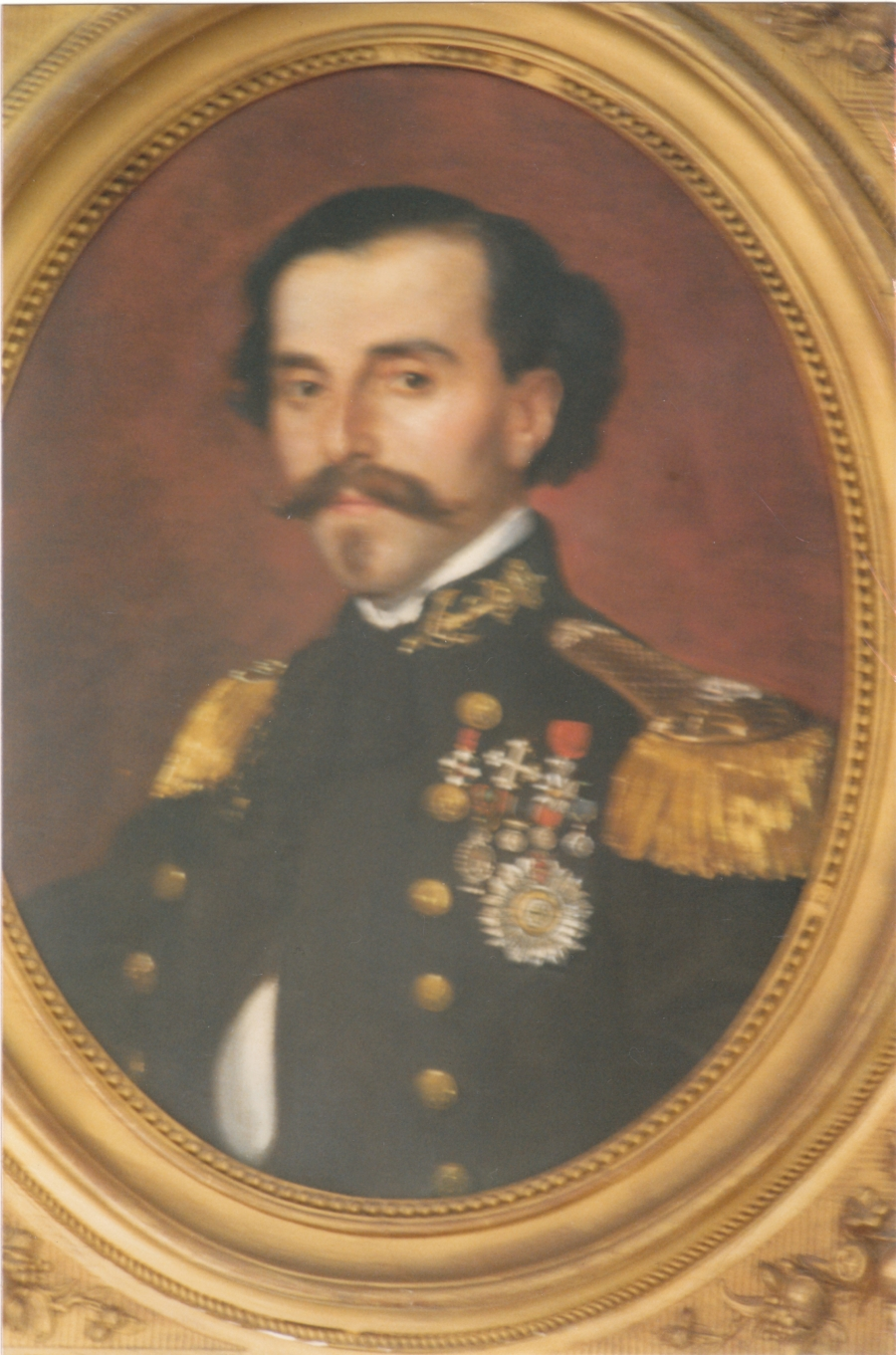 Portrait of Giuseppe Alessandro Piola Caselli